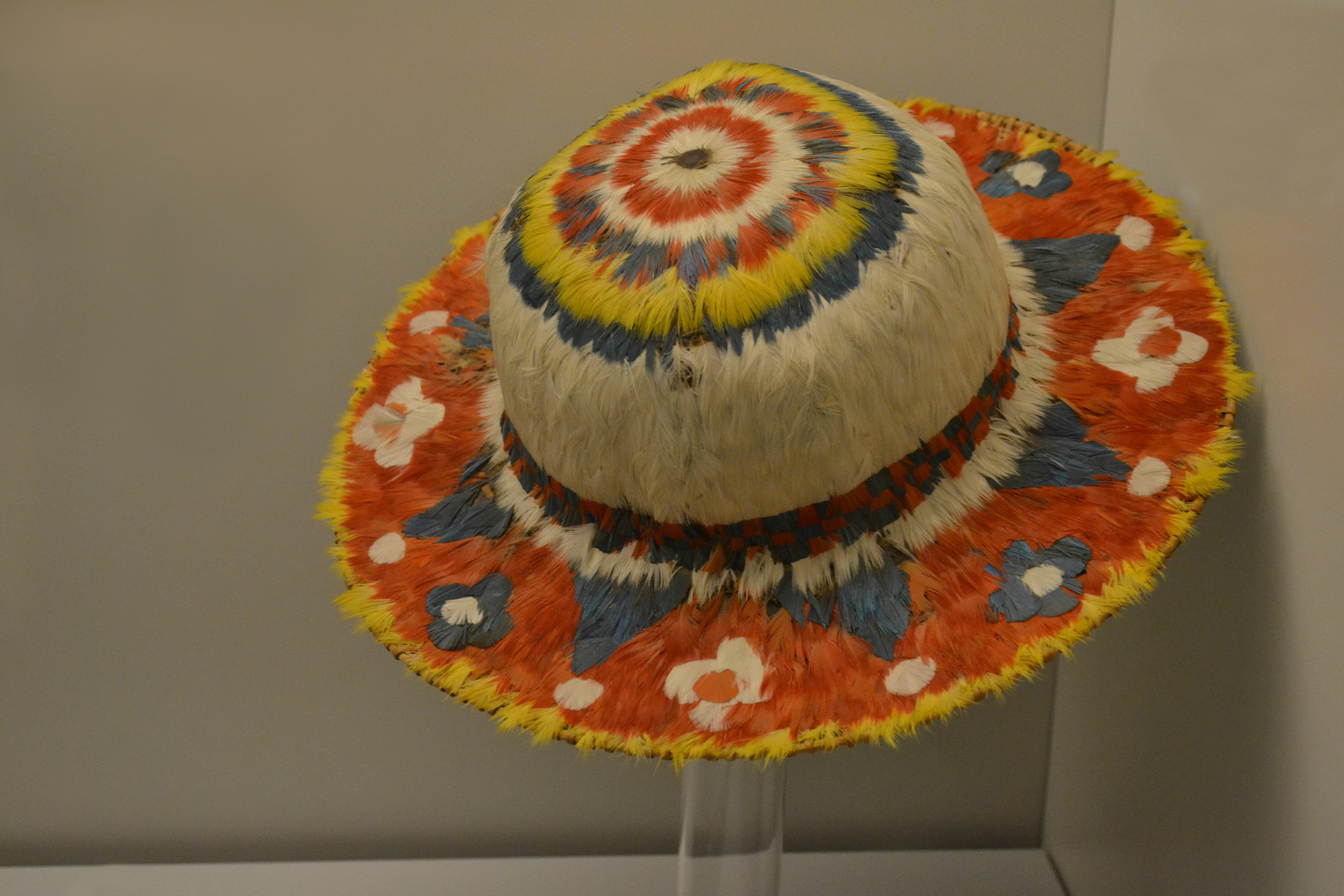 Hat of the Cholones Indians. Made with feathers, silk, fibre and vegetable resin. 18th century. Origin: Pampahermosa, Peru. Access number 13.351. Museum of the Americas (Madrid).